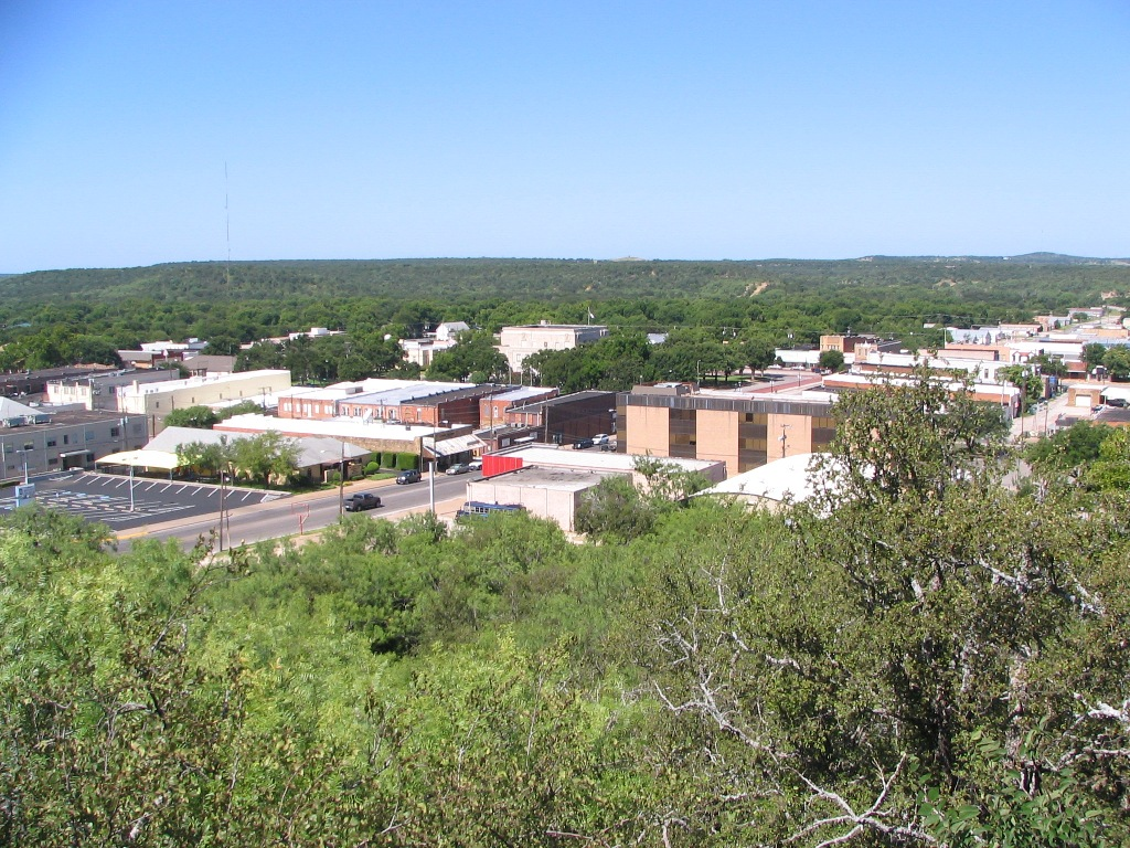 Downtown square of Graham, Texas, as seen from the top of Twin Mountains.